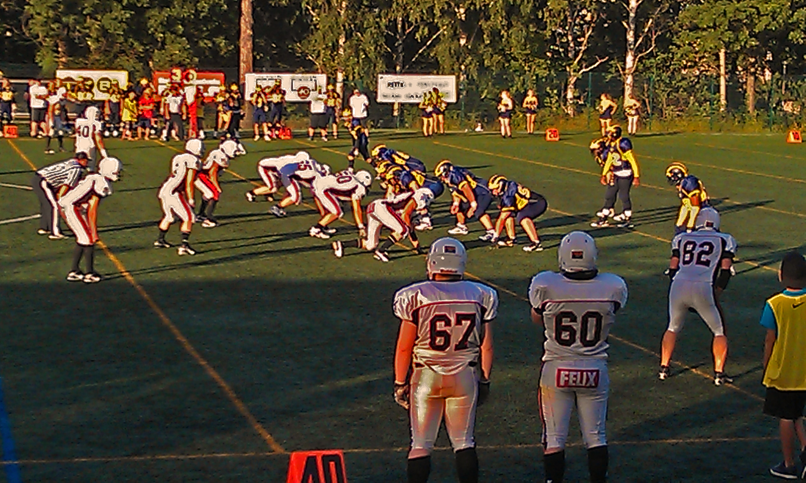 Finnish Maple League: Helsinki Wolverines (blue) @ Turku Trojans (white)